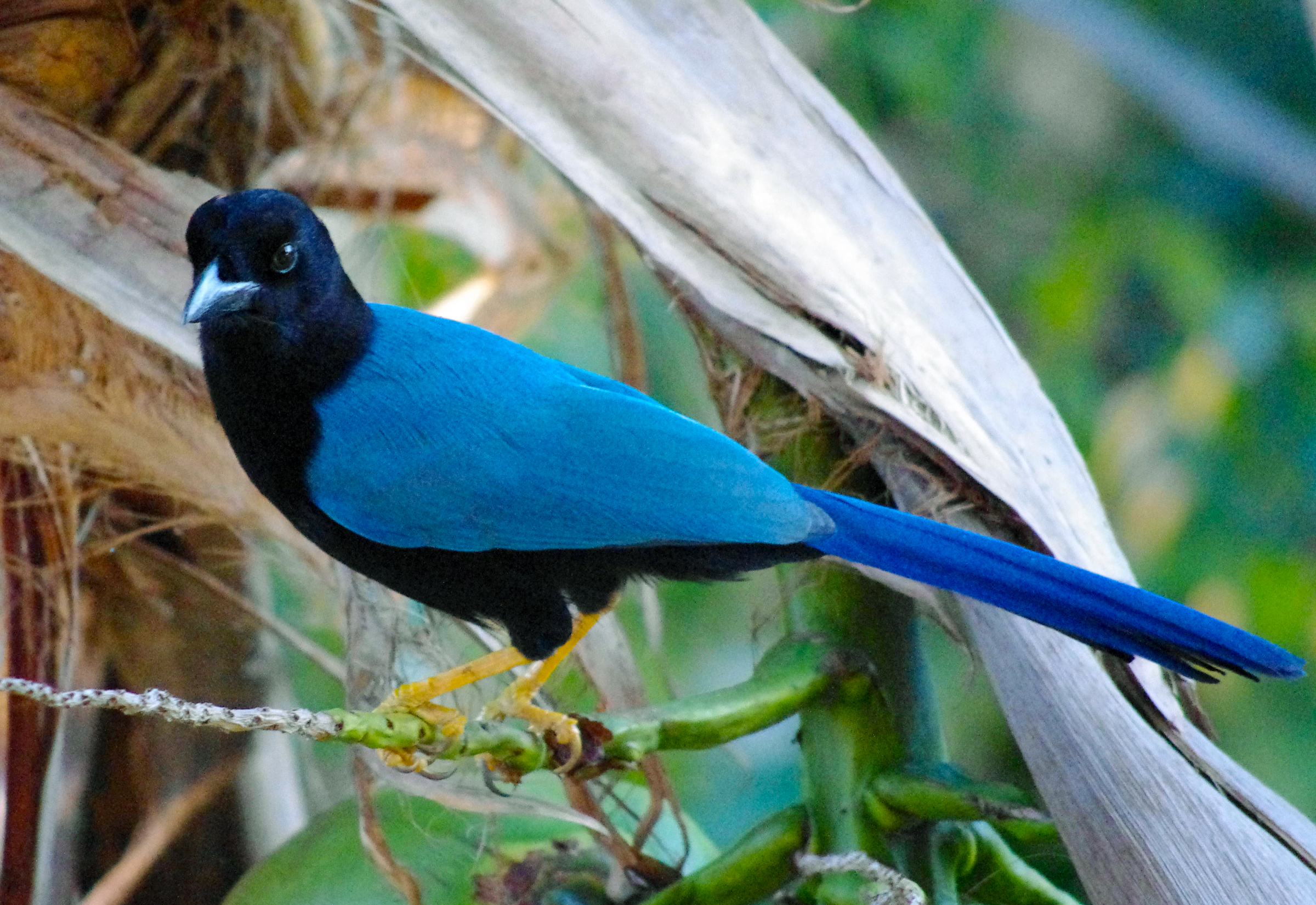 Adult Cyanocorax yucatanicus